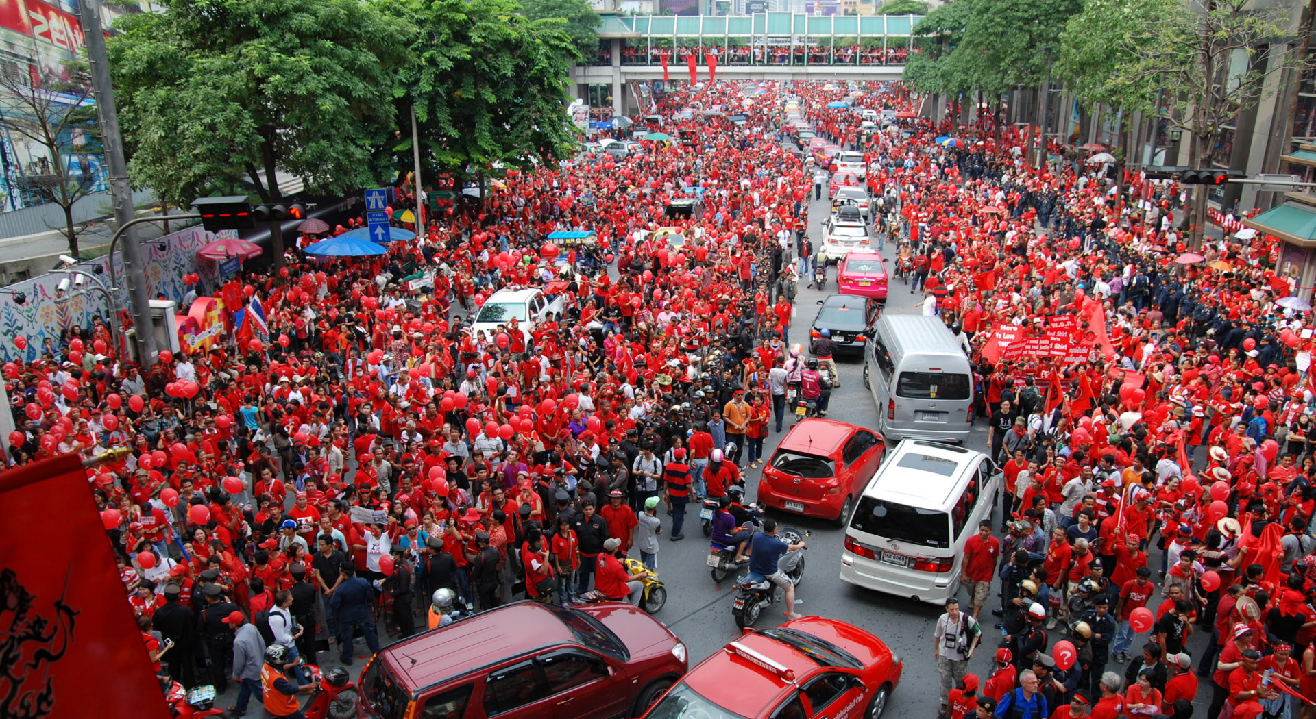 "Red Shirt" protest at Ratchaprasong intersection. The red shirts organised mass rallies across Thailand to mark the ousting of former Thai prime minister Thaksin by a military coup 4 years ago, and to commemorate the final day of the military crackdown on their protests 4 months ago. This gathering was at Ratchaprasong intersection, an area in downtown Bangkok which was occupied by the red shirts between April 3, 2010, and May 19, 2010, the day that the Thai military violently ended the protests and on which day the protesters set fire to many buildings across Thailand including CentralWorld in Bangkok, the largest shopping mall of Southeast Asia, here to the left of the photo.